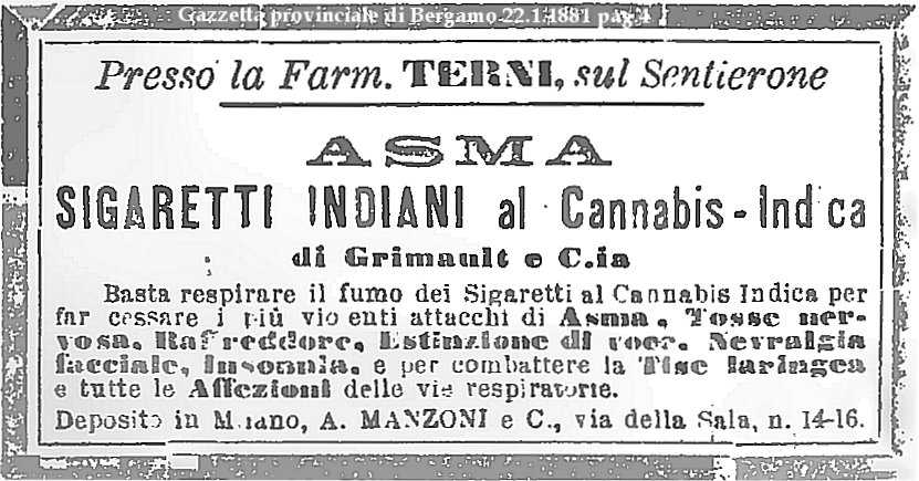 ASTHMA INDIANS cigarillos to Cannabis Indica- Of Grimault and Cos Just breathing the smoke of the Cannabis Indica Cigarillos to stop the most violent attacks of asthma, nervous cough, Colds, Extinction of voice, facial neuralgia, insomnia, and to combat all Tise Laryngeal and respiratory ailments. Store in Milan, A. And C. Manzoni, Via della Sala, n.14-16.